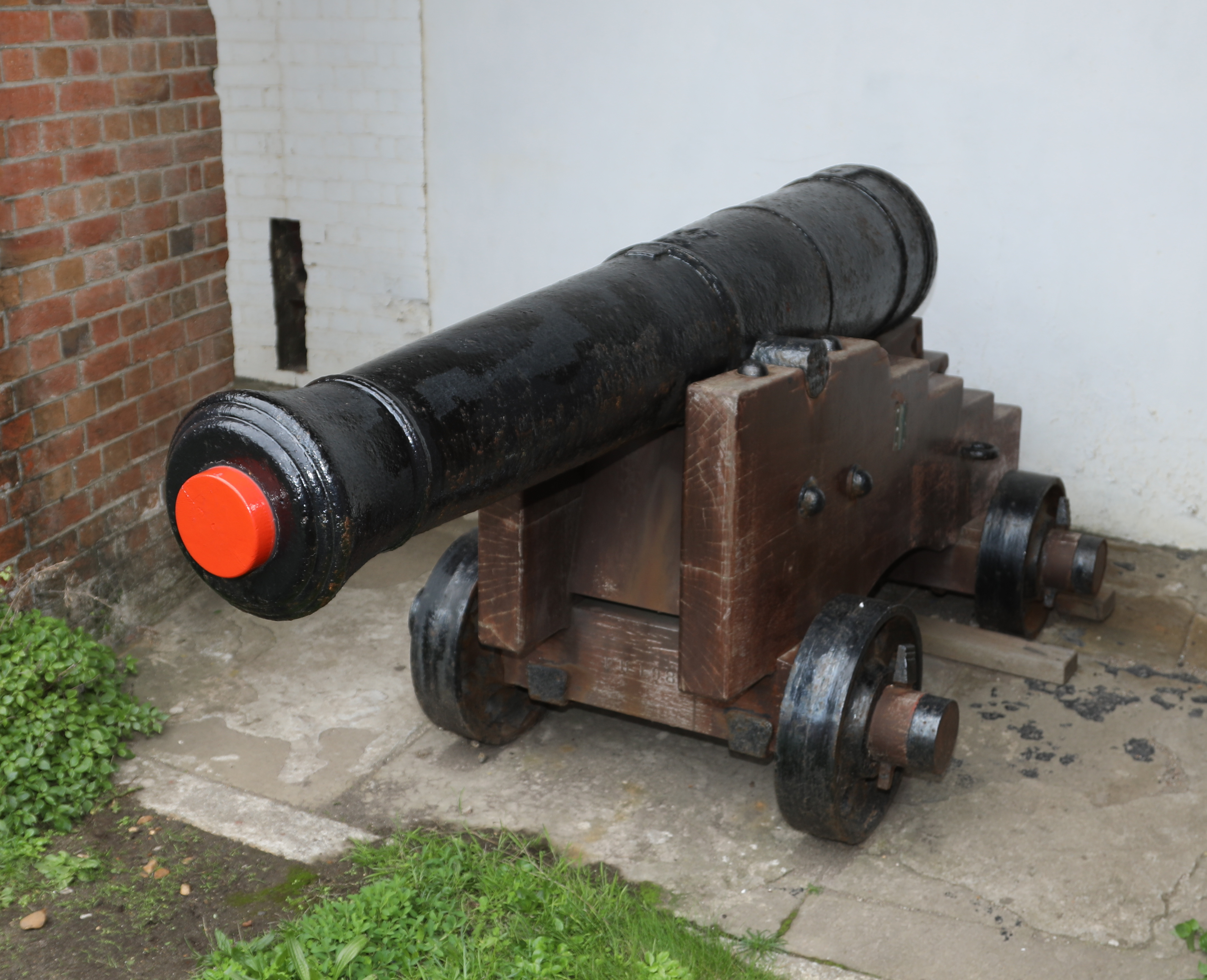 Photo of a Blomefield pattern 9 pounder canon